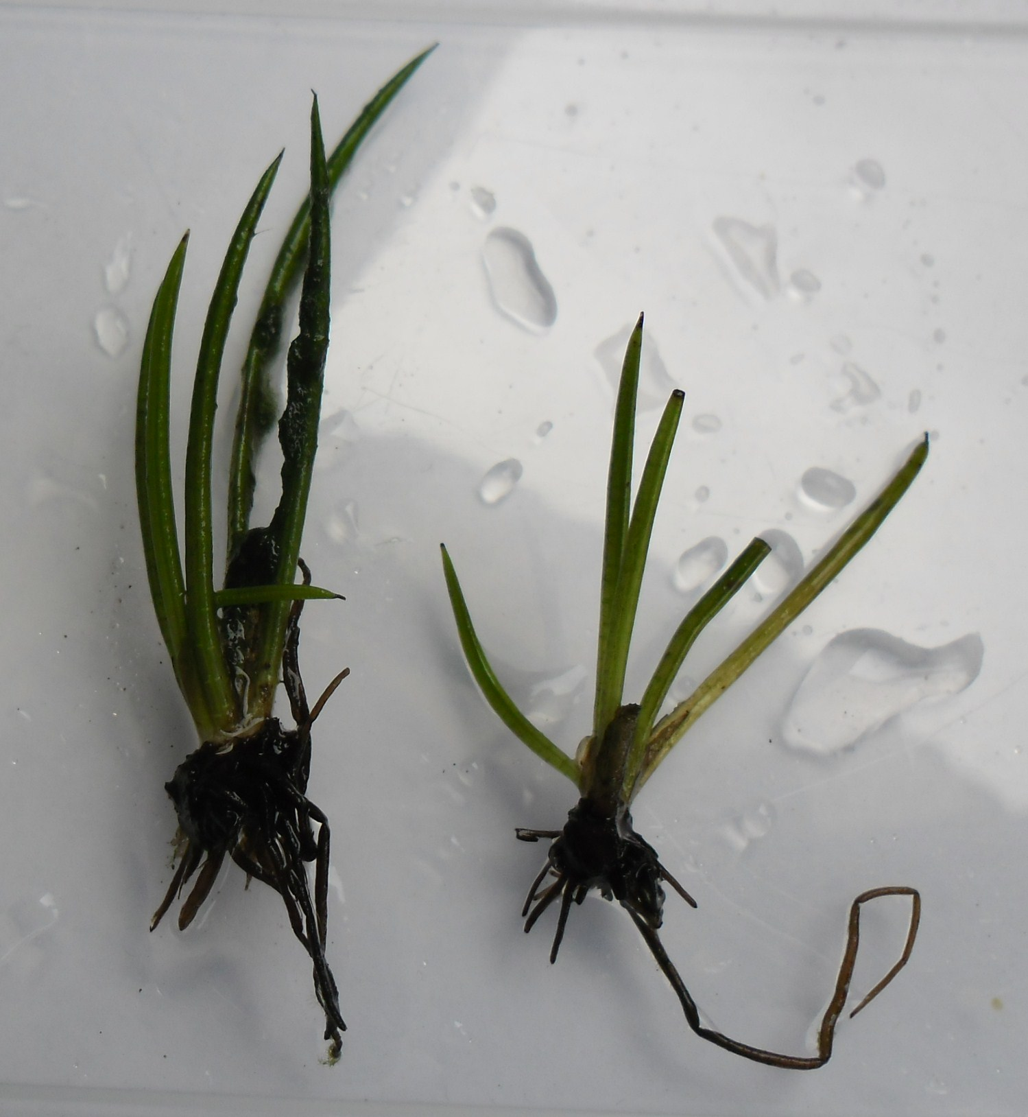 Isoetes lacustris from Madum Lake, Rold Forest, Himmerland, North Jutland, Denmark